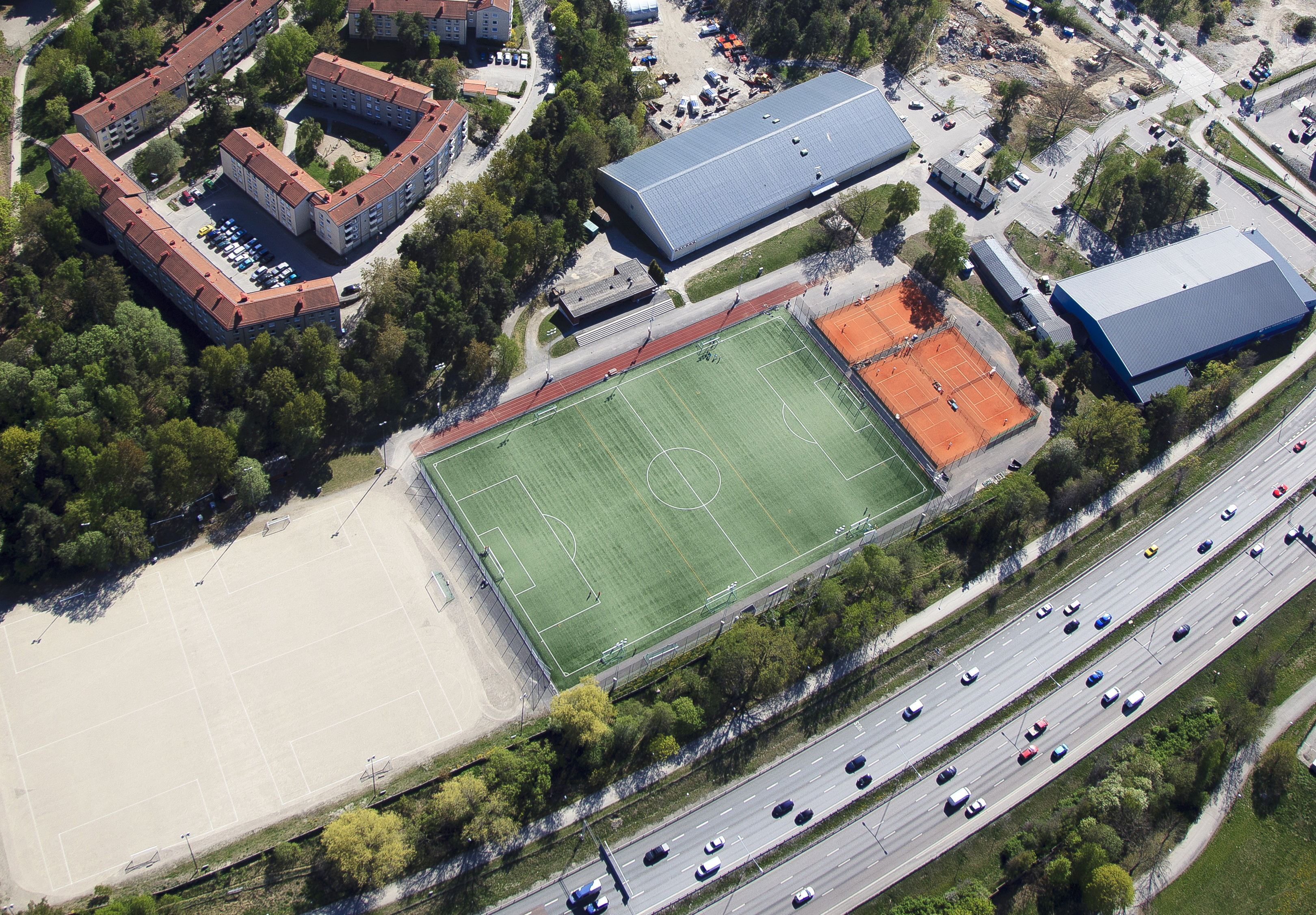 FOTOGRAFIFlygfoto Fruängen -FOTOGRAF: Johan Stigholt.BILDNUMMER:Stadsmuseet i Stockholm